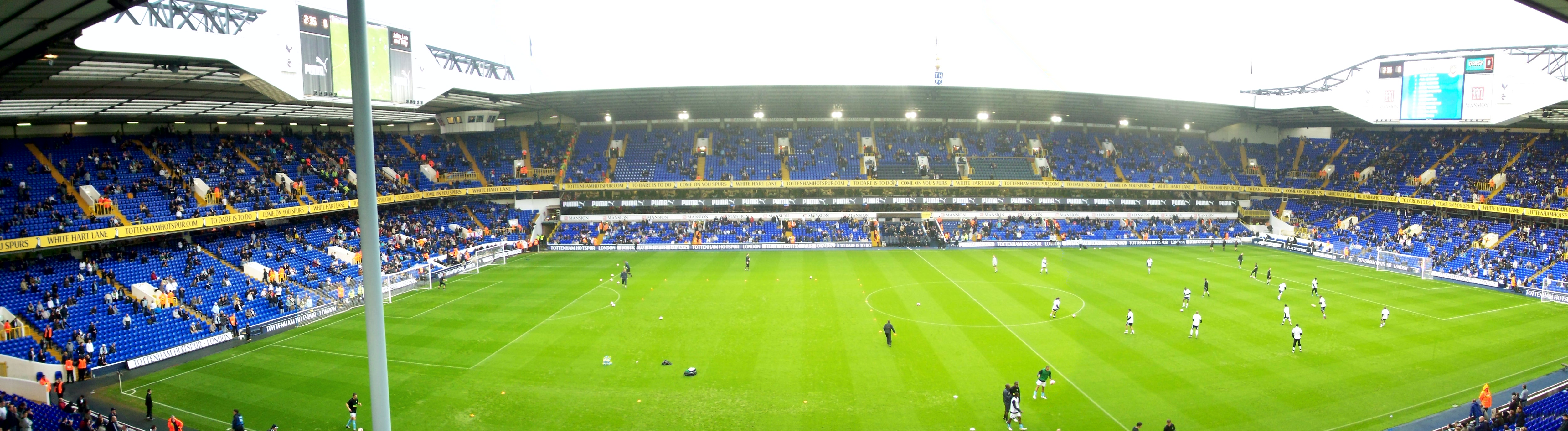 Panoramic view of White Hart Lane, taken from the upper tier of the East Stand (The Shelf) with the West Stand directly opposite, the South Stand (Park Lane) to the left, and the North Stand (Paxton Road) to the right. This was taken before Tottenham Hotspur's Premiership match against West Ham United on 22nd October 2006.